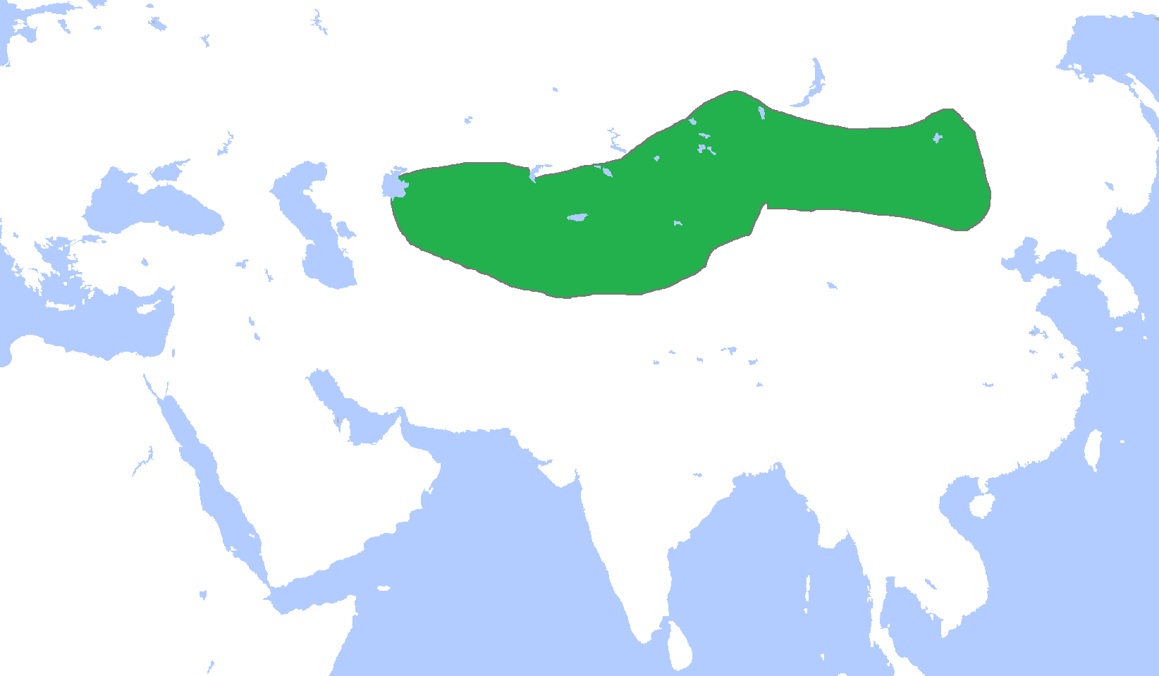 Locator map of the Gökturks, c. 551-572. (Partially based on Atlas of World History (2007) - The World 500-750, map)